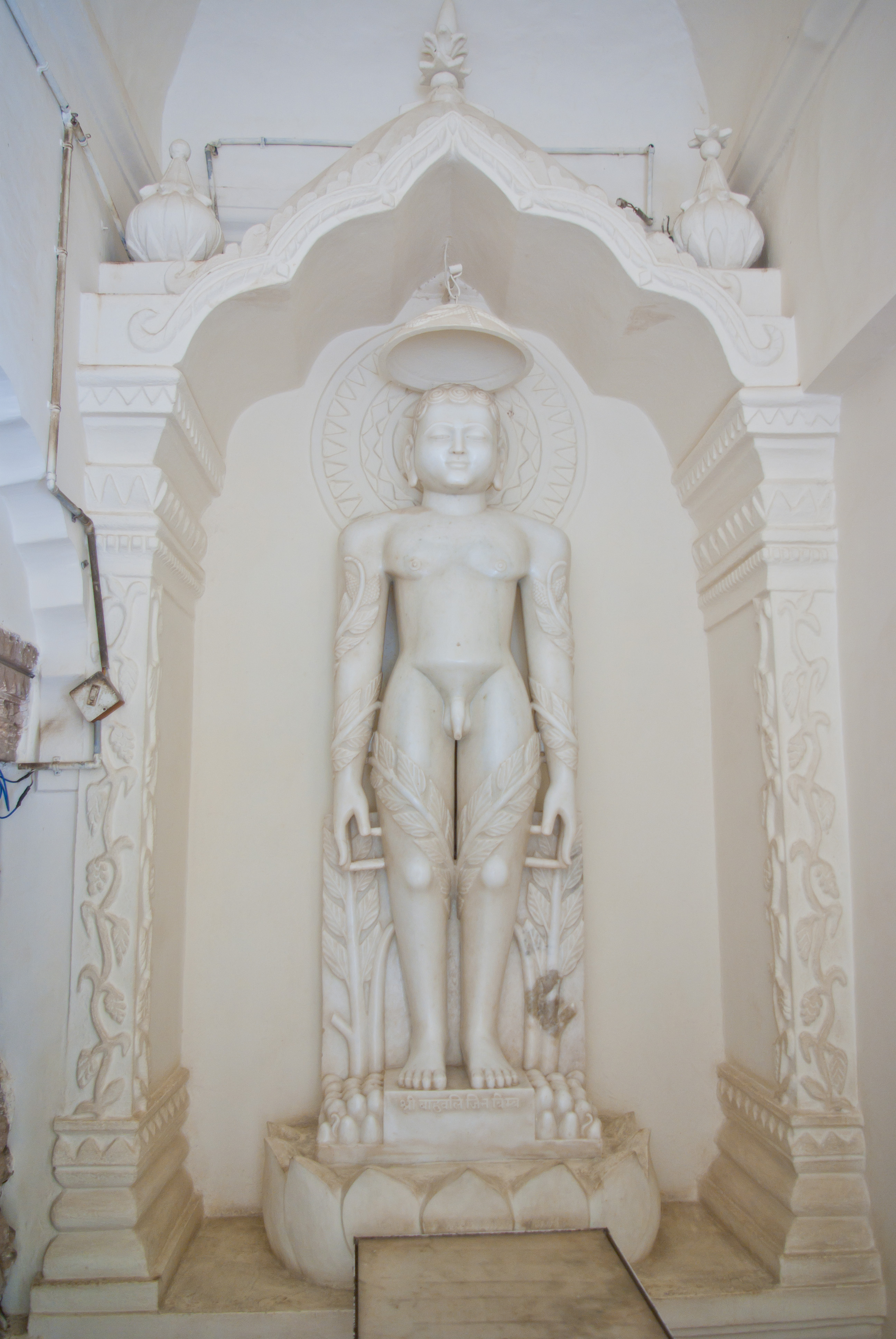 Shantinath Jain Temple Khajuraho